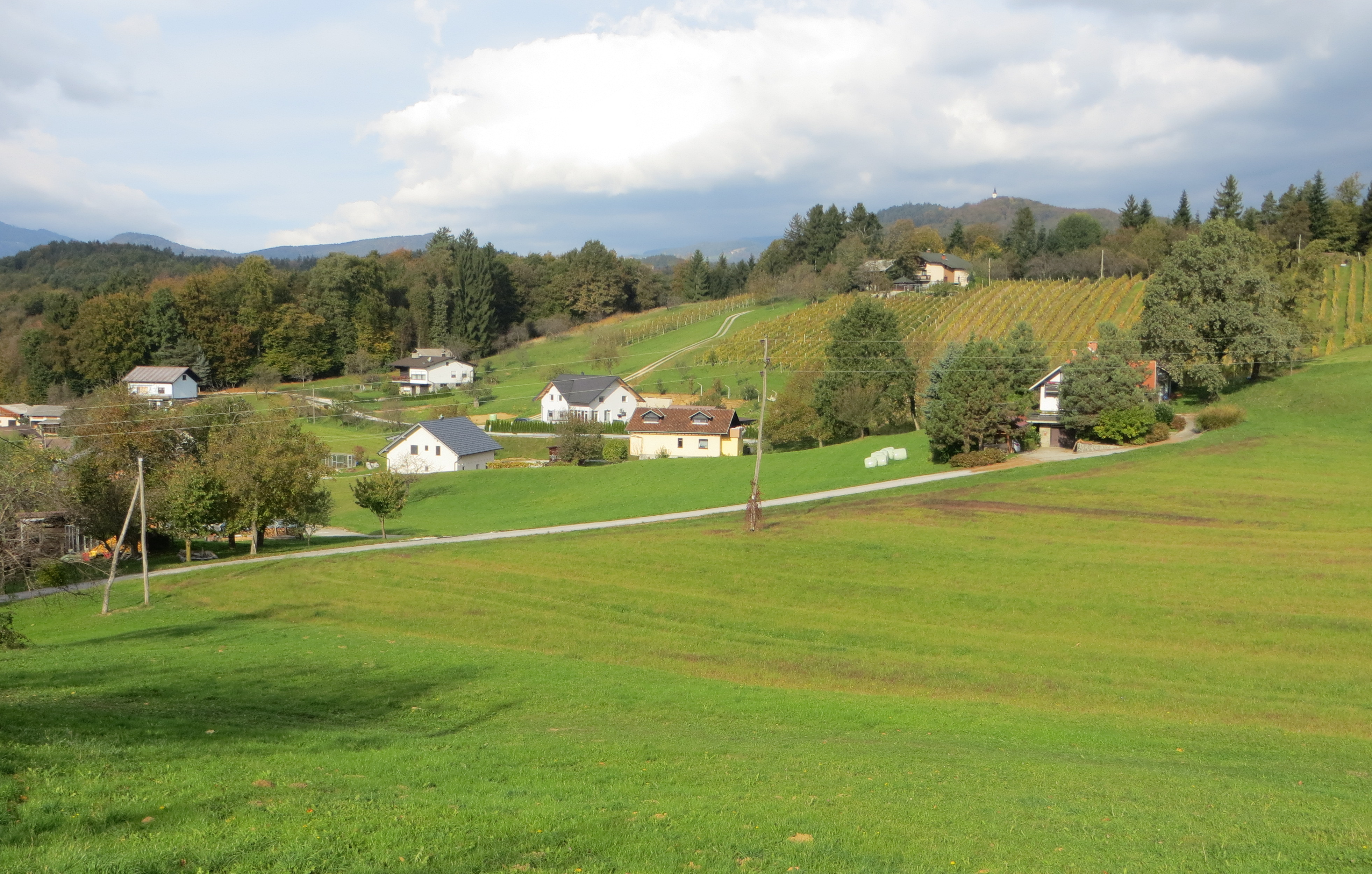 Bezina, Municipality of Slovenske Konjice, Slovenia